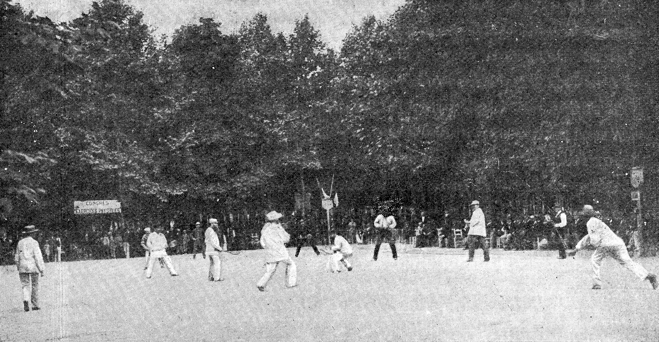 Book by Pierre de Coubertin Competition of longue paume in the Garden of the Luxembourg (Paris), on June 18th, 1889